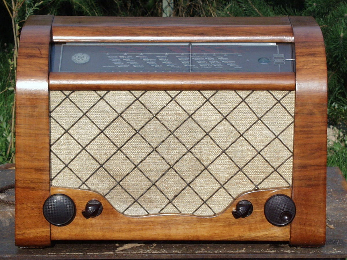 Radio "AGA RSZ-50", (front) manufacturer: "DIORA" (Poland), 1947-1950